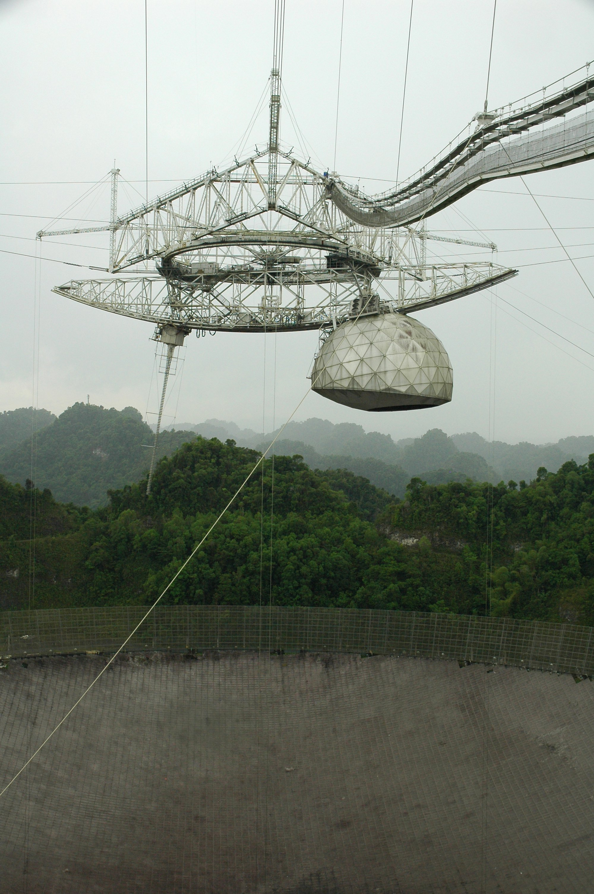 Detail of the Arecibo radio telescope.